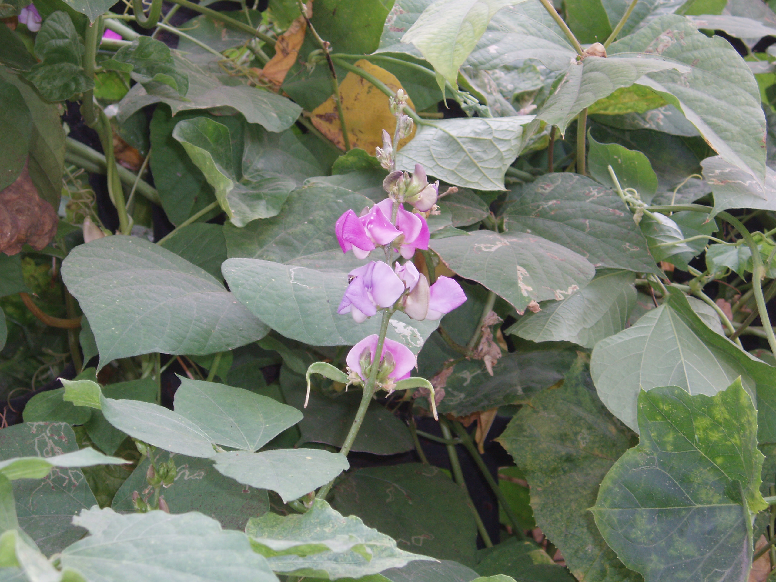 Lablab bean flowers and beans